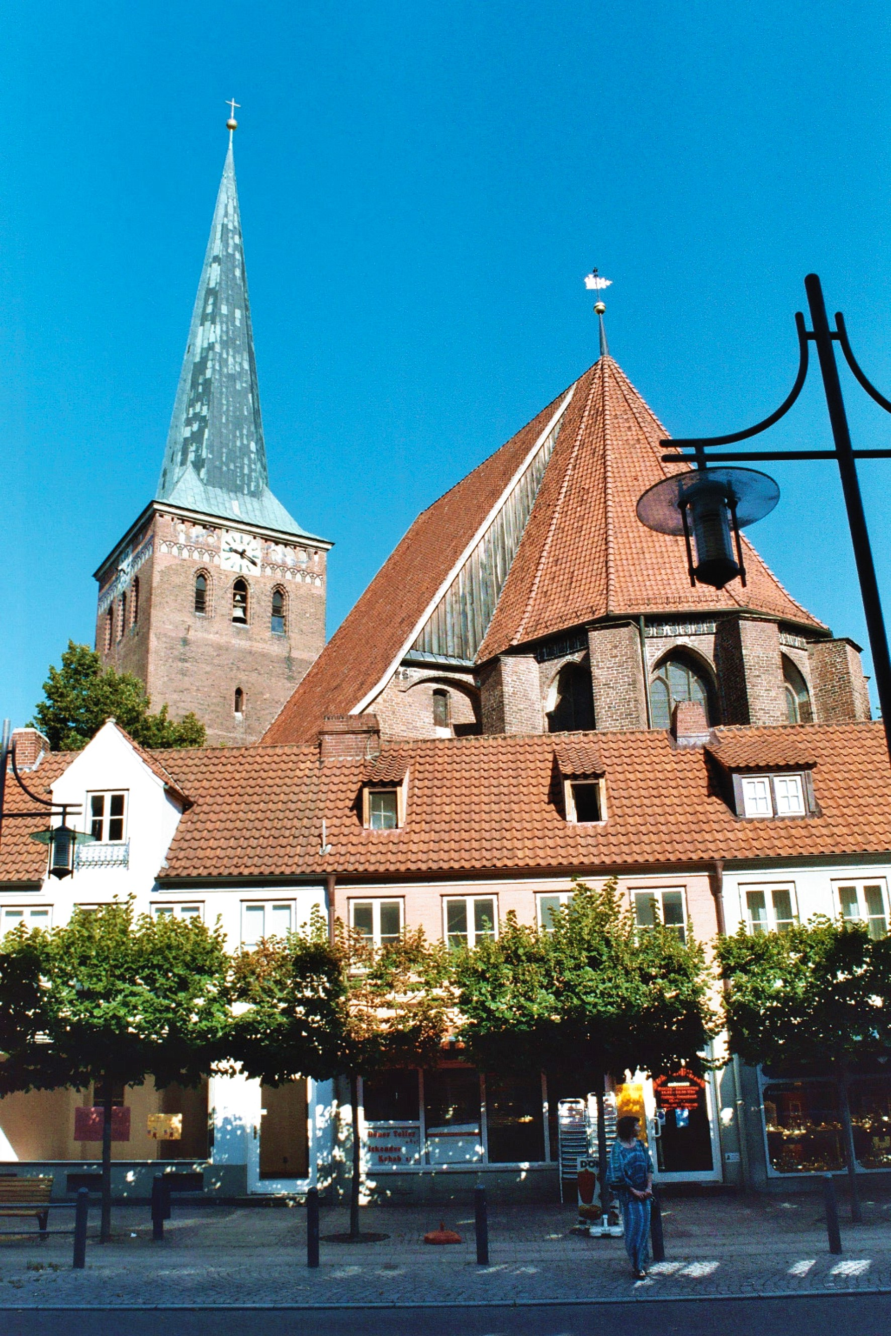 Uelzen, view to the St. Mary´s Church